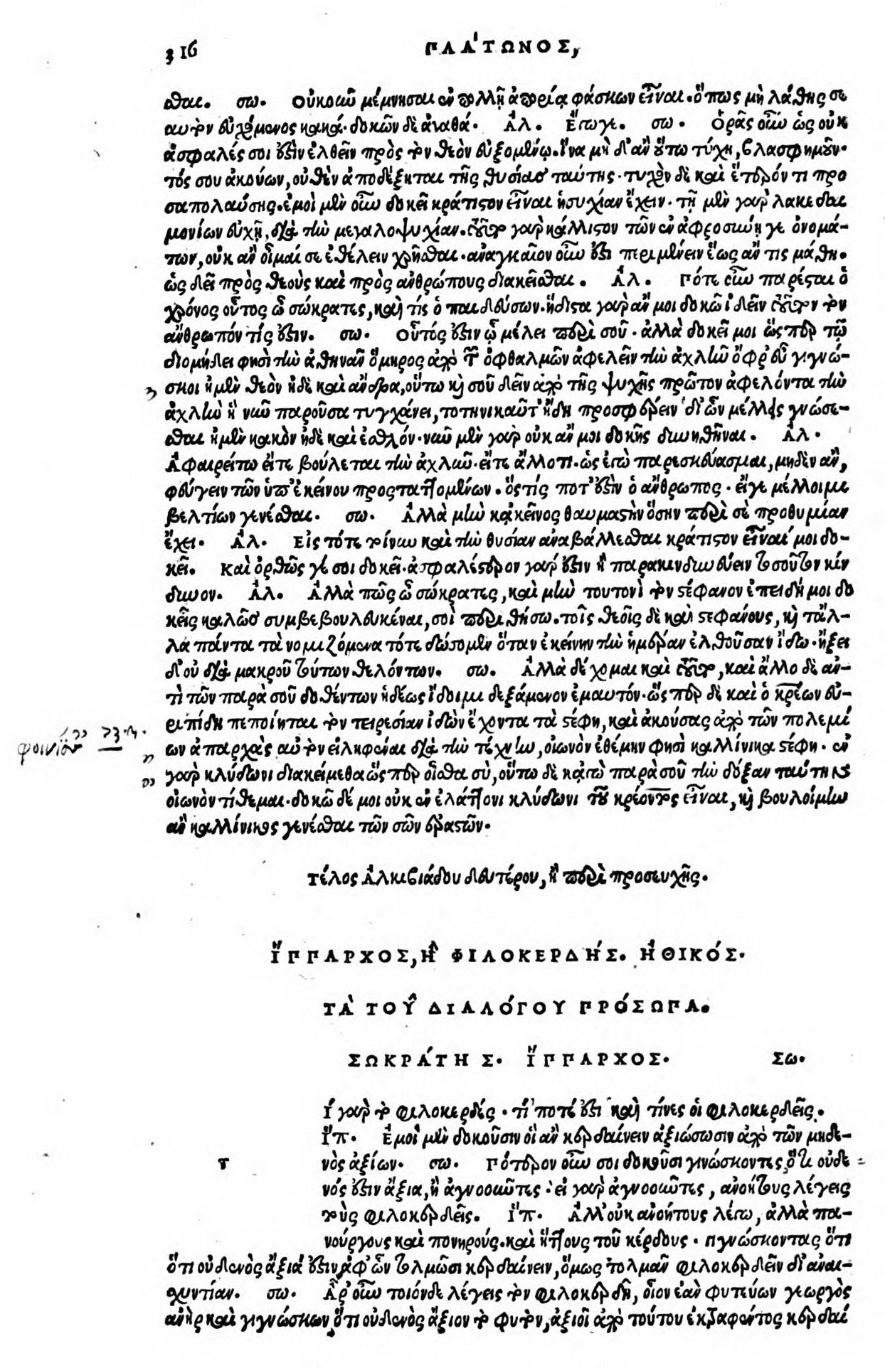 Hipparchos beginning. Editio princeps, Venice 1513.